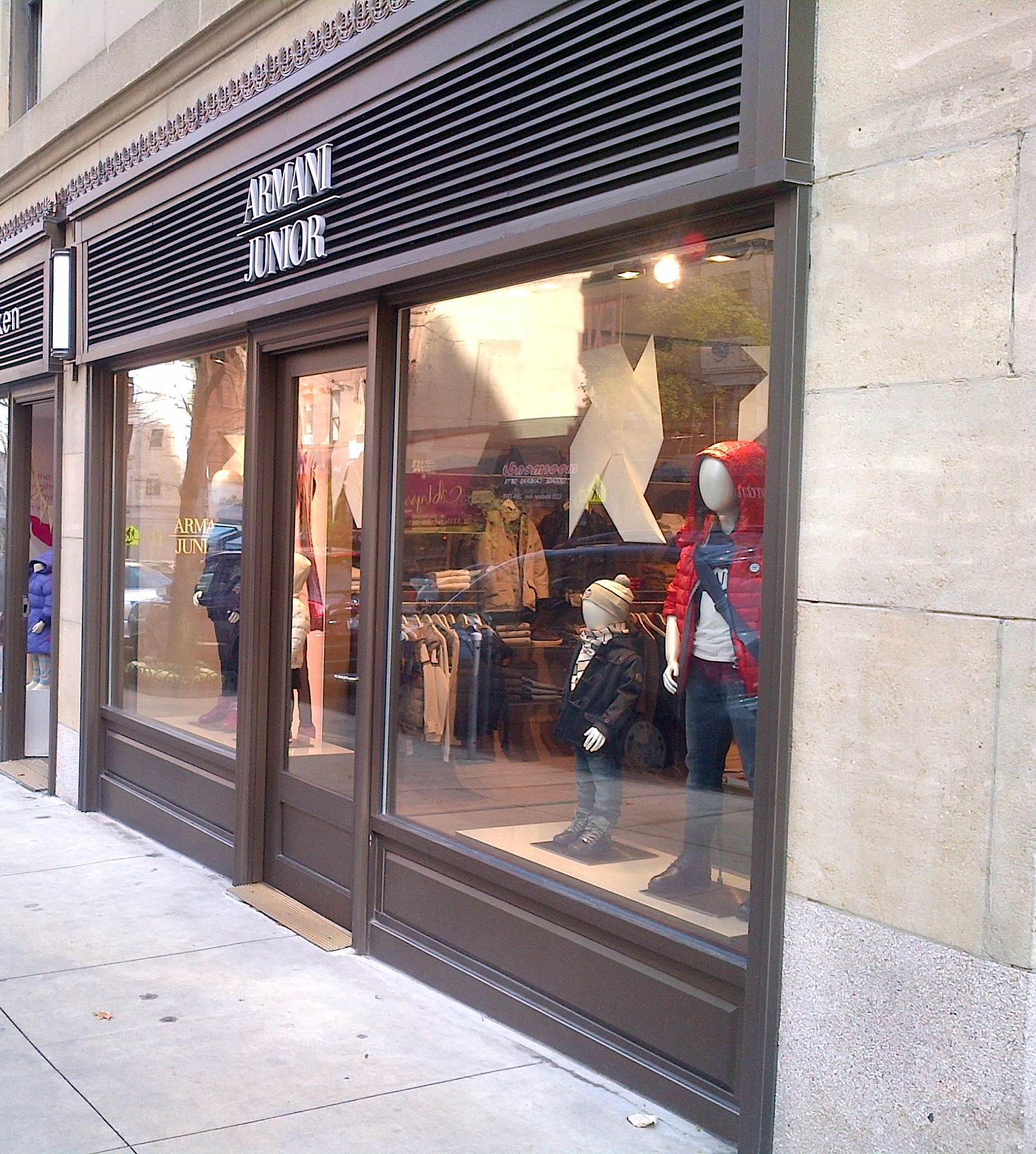 Armani Junior boutique, 1223 Madison Avenue, Manhattan, NYC, at the corner of East 88th Street.